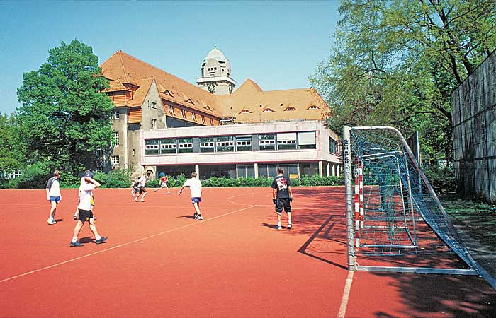 arndt-gymnasium dahlem